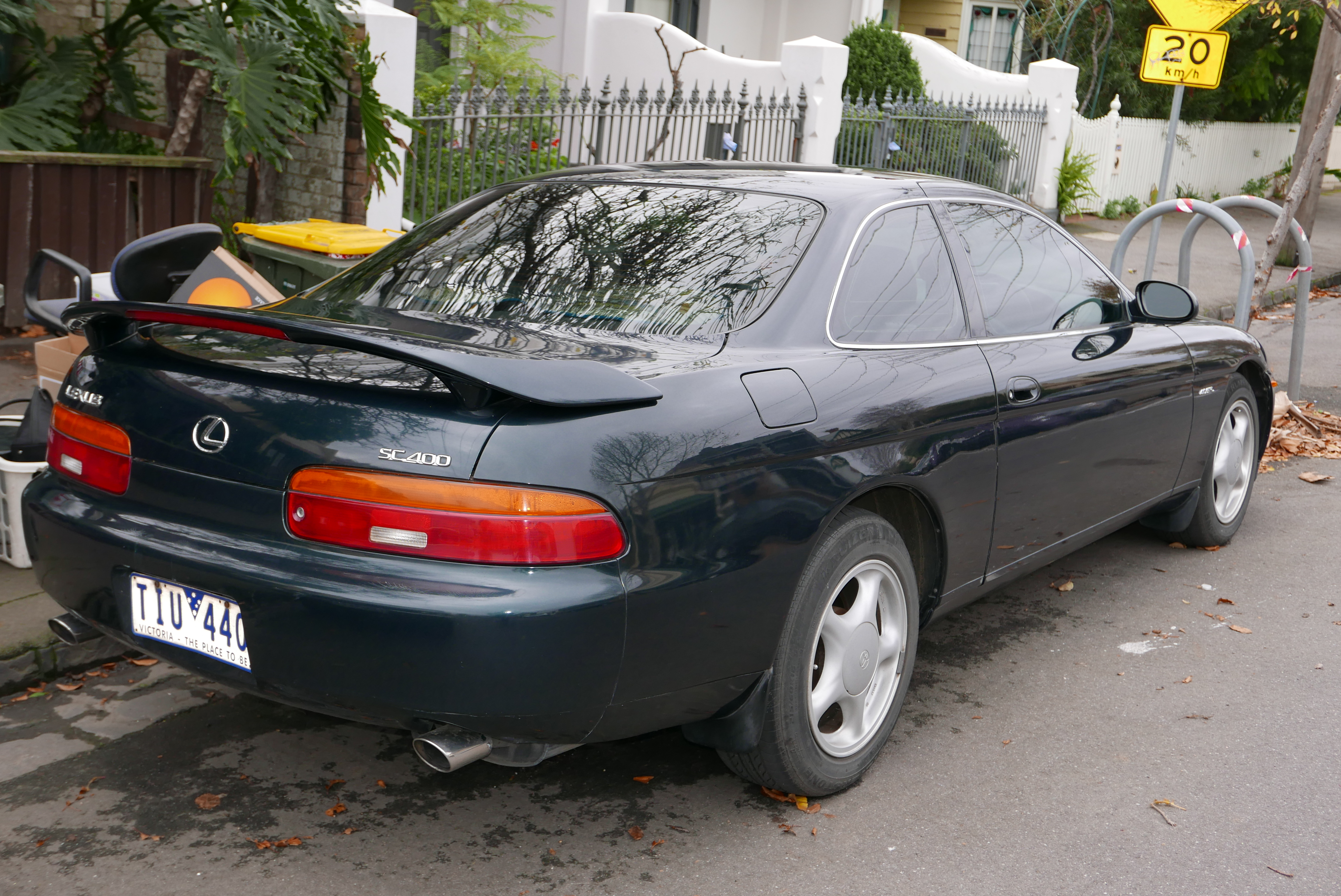 1992 Toyota Soarer (UZZ31) 4.0GT-L coupe. This is a grey import from Japan, complianced for Australia in August 1997. Photographed in Fitzroy North, Victoria, Australia. Vehicle registration enquiry results Jurisdiction Victoria Registration TIU440 Chassis code 6D91MP0RTVHM81017 Engine code 1UZ0219417 Compliance date 1997-08 Year of manufacture 1992